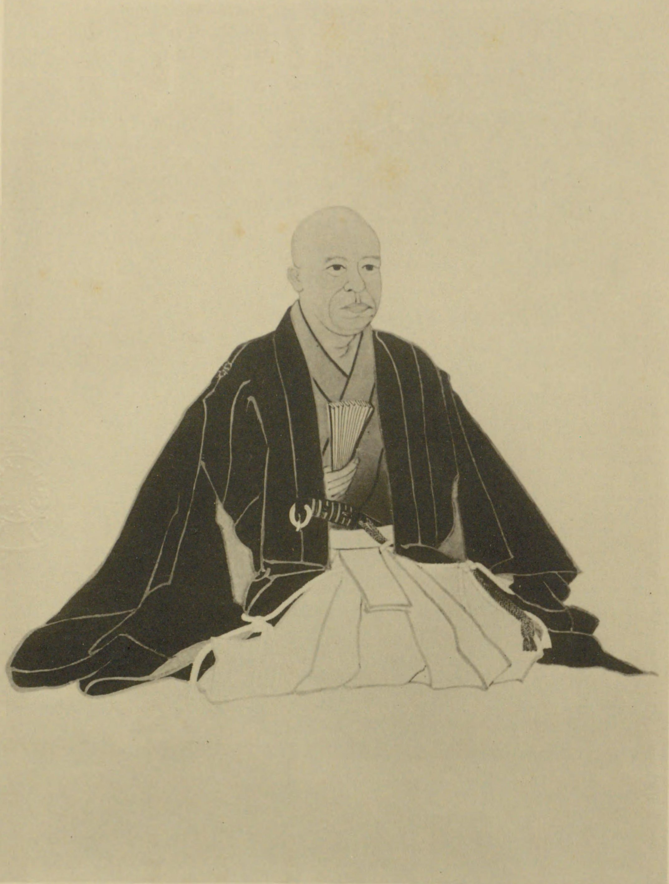 Portrait of Hayashi Dokai